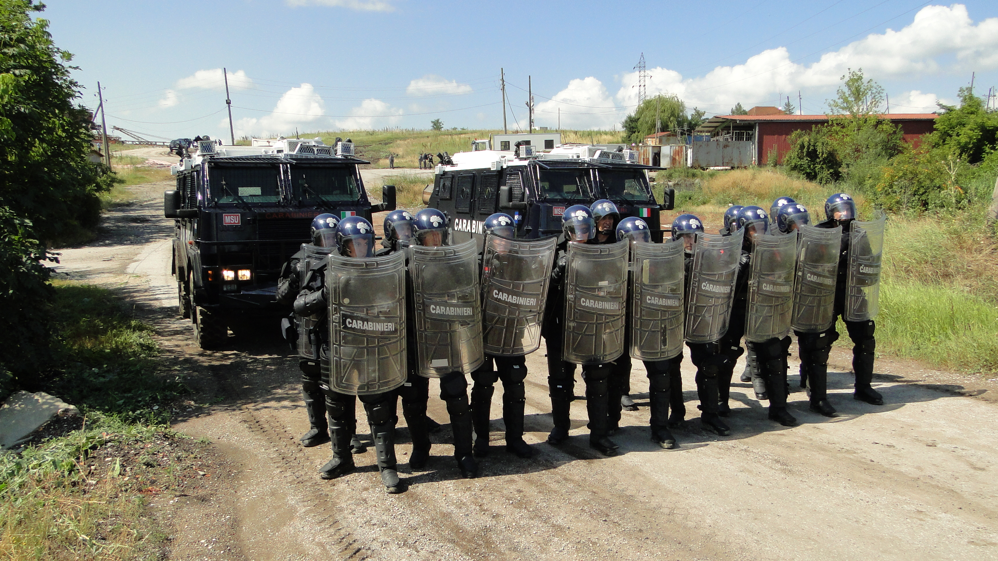 Carabinieri Multinational Specialized Unit team during a crowd and riot control exercise in Kosovo, 2019.